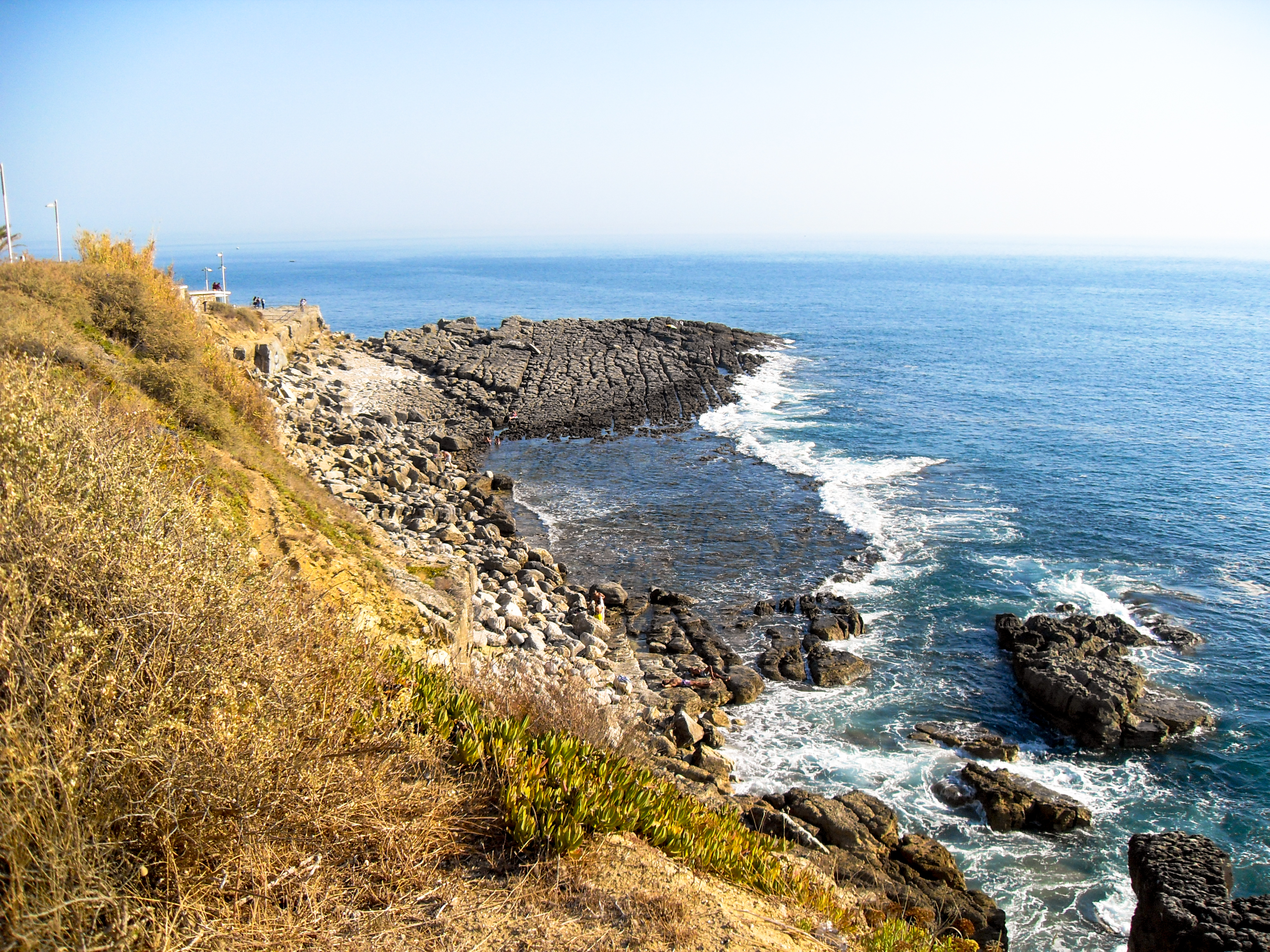 Pedra do Sal vista em período de maré vazante.